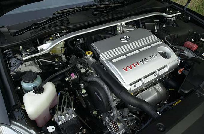 Foto of 1MZ-FE engine on Toyota Windom (known in US as Lexus ES300).